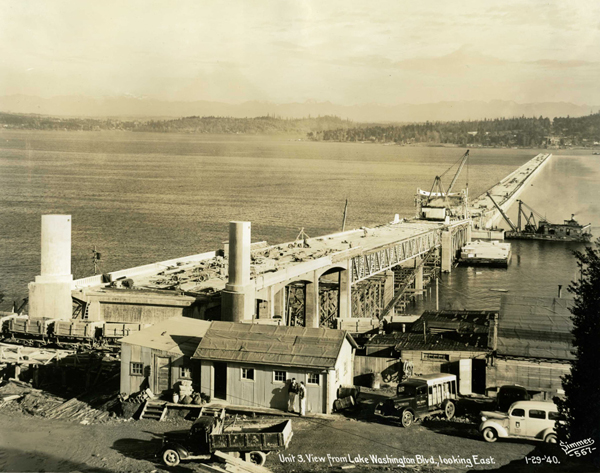 Many of the people traveling across one of Lake Washington’s floating bridges likely take the innovative spans for granted, but when the lake’s very first floating bridge opened to traffic on July 2, 1940, it was the culminating moment of a remarkable engineering feat. Known as the Lacey V. Murrow Bridge, it was the largest and longest floating bridge ever built at that time, and it was the first to be built with reinforced concrete. (It was also known by many as the first I-90 floating bridge.) When it opened, the bridge represented one of “engineering’s greatest triumphs,” in the same category as Boulder Dam and the Golden Gate Bridge. Construction began on the Murrow Bridge on January 1, 1939. This photo, from the Washington State Department of Transportation Photograph Collection, was taken on January 29, 1940, nearly 71 years ago to the day. It was rebuilt after part of the bridge sank on November 25, 1990, with the refurbished bridge opening on September 12, 1993. Construction on a second I-90 floating bridge began in April 1986 and was open to traffic on June 4, 1989. That span is known as the Homer Hadley Bridge.